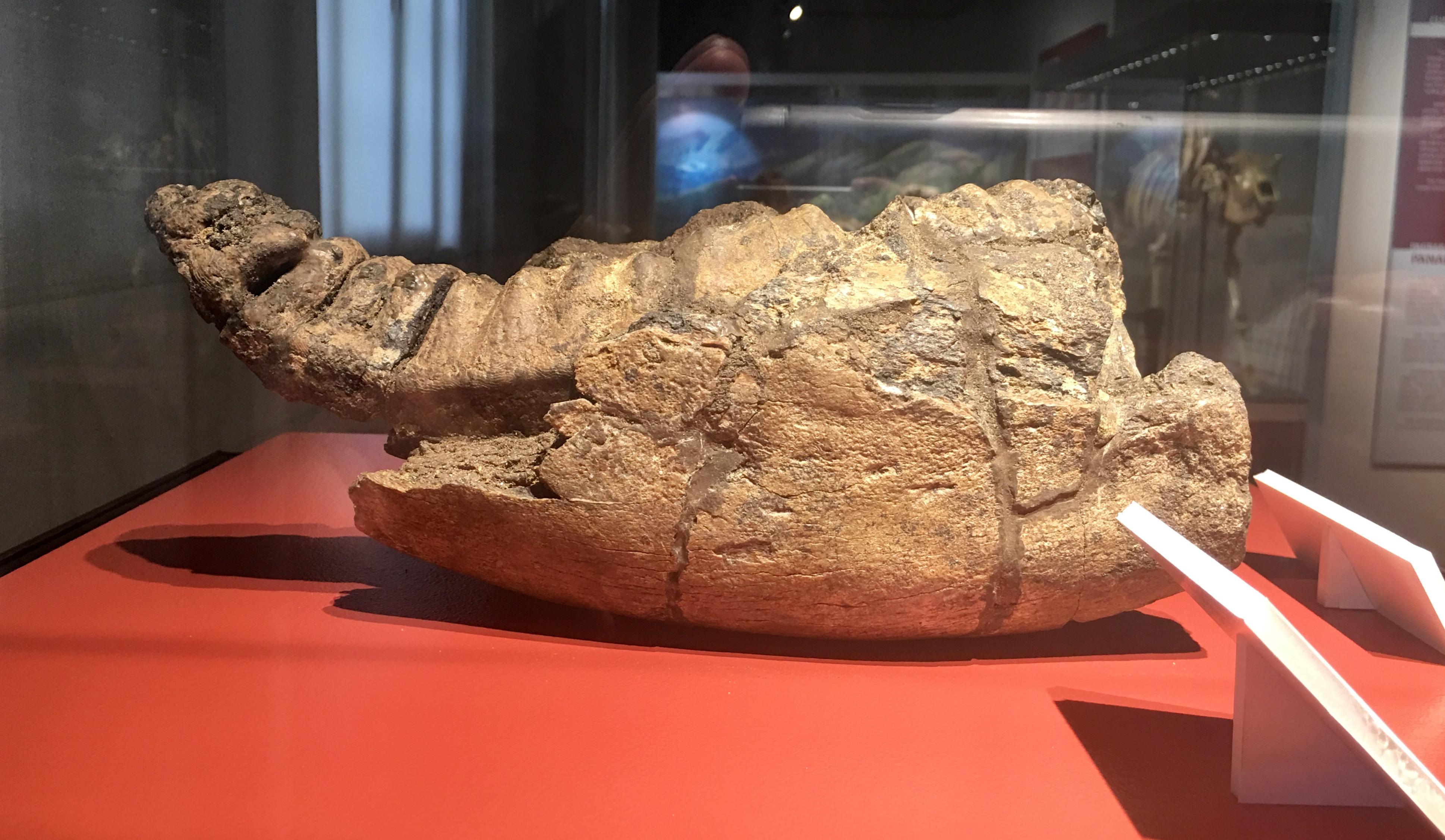 Fossilized stegodon’s jaw with molar